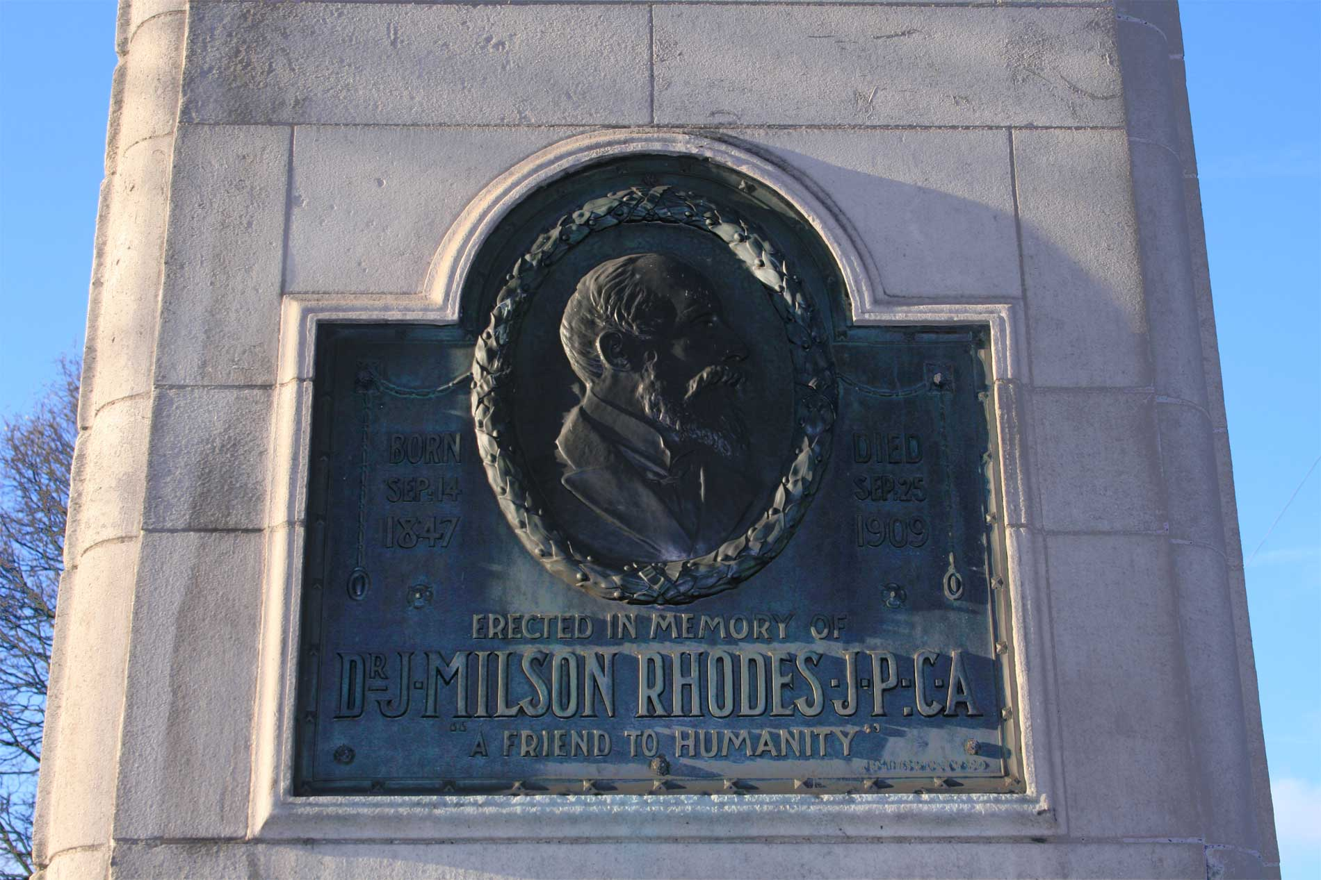 Plaque on Didsbury station clock, in front of the former Didsbury station, which was erected as a memorial to Dr J. Milson Rhodes.